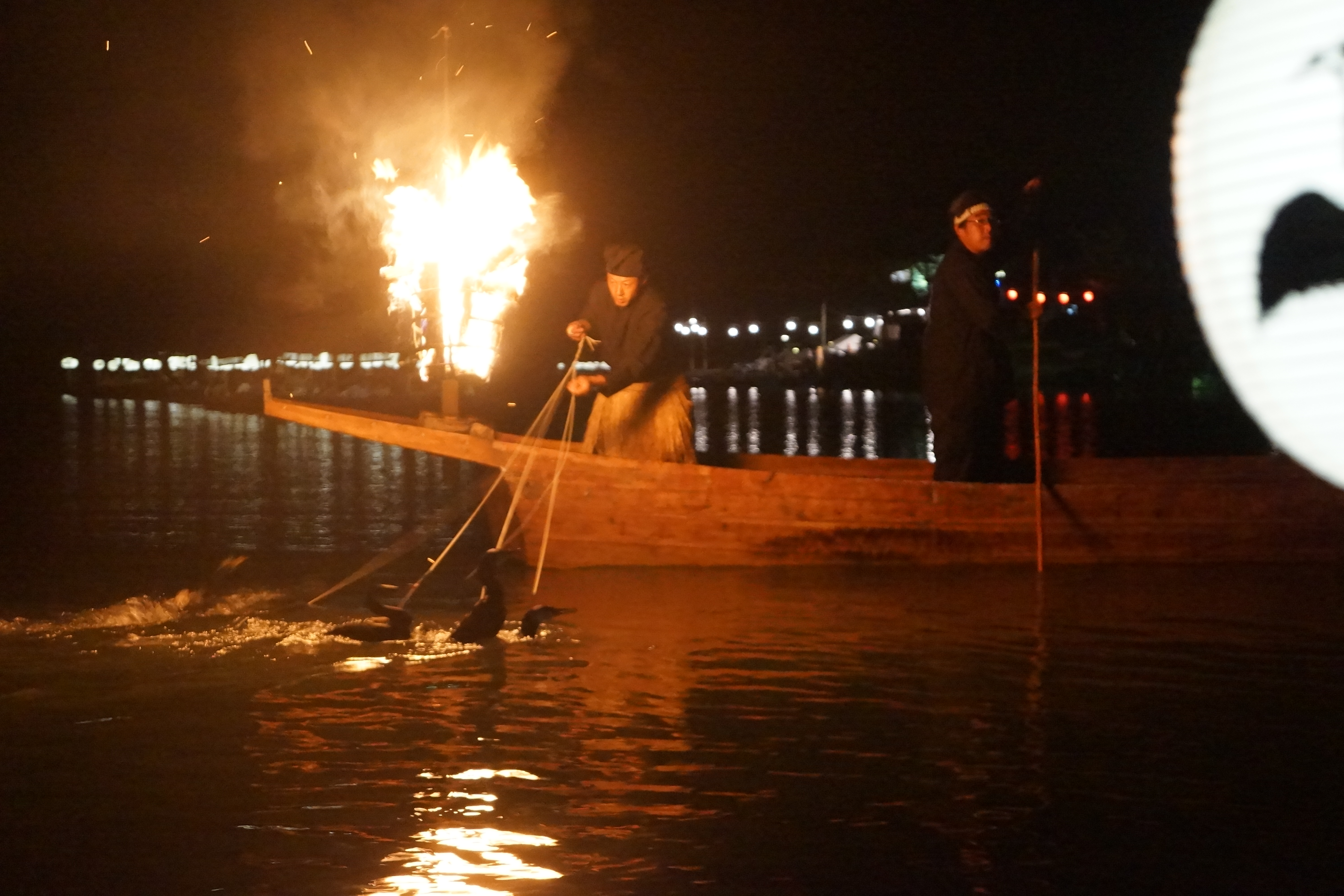 Traditional Ukai Cormorant Fishing in Arashiyama, Kyoto